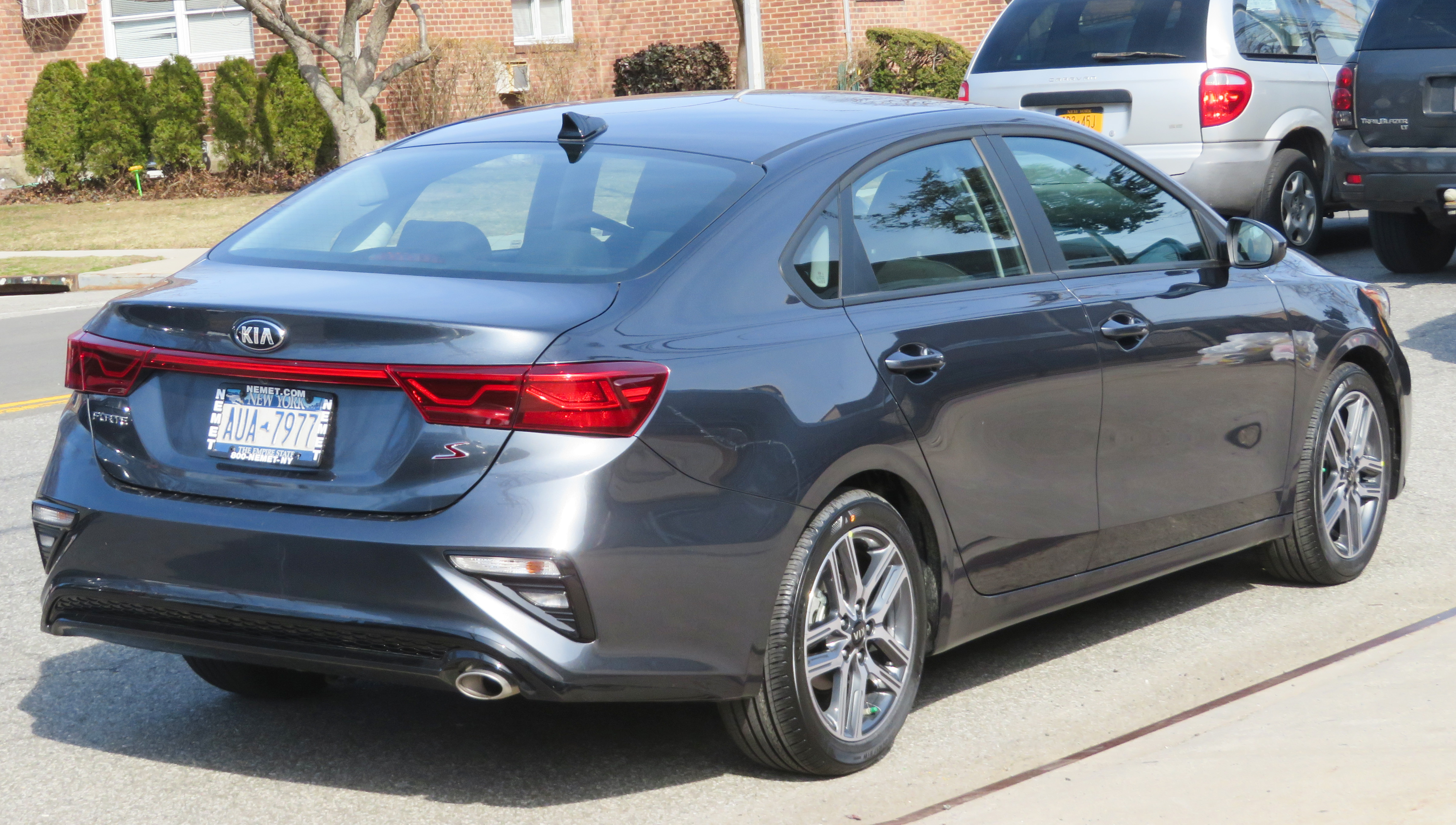 A 2019 Kia Forte S photographed in Queens, New York, USA